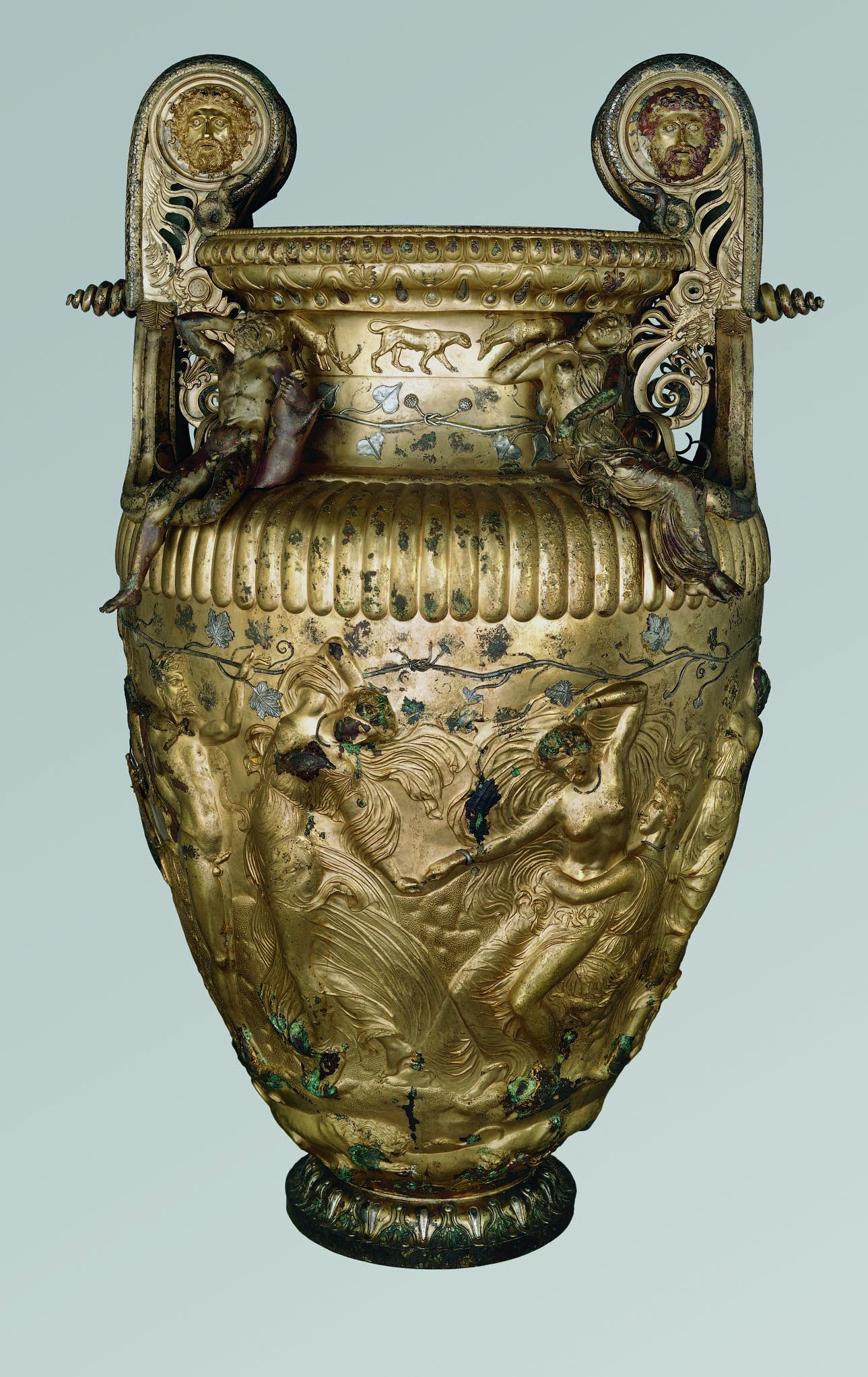 Trio of maenads with a Silenos.